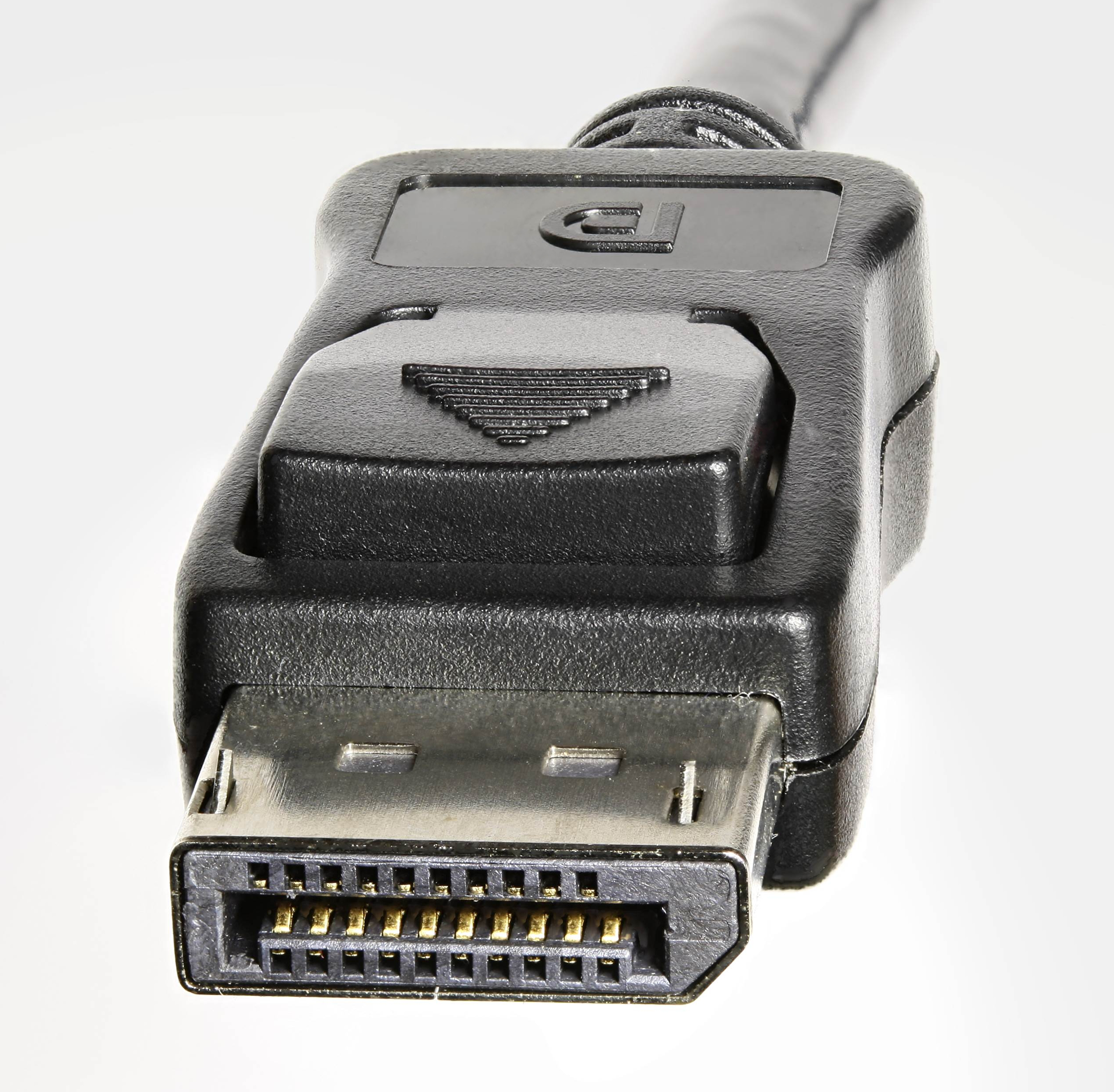 The front and top side of a male DisplayPort connector